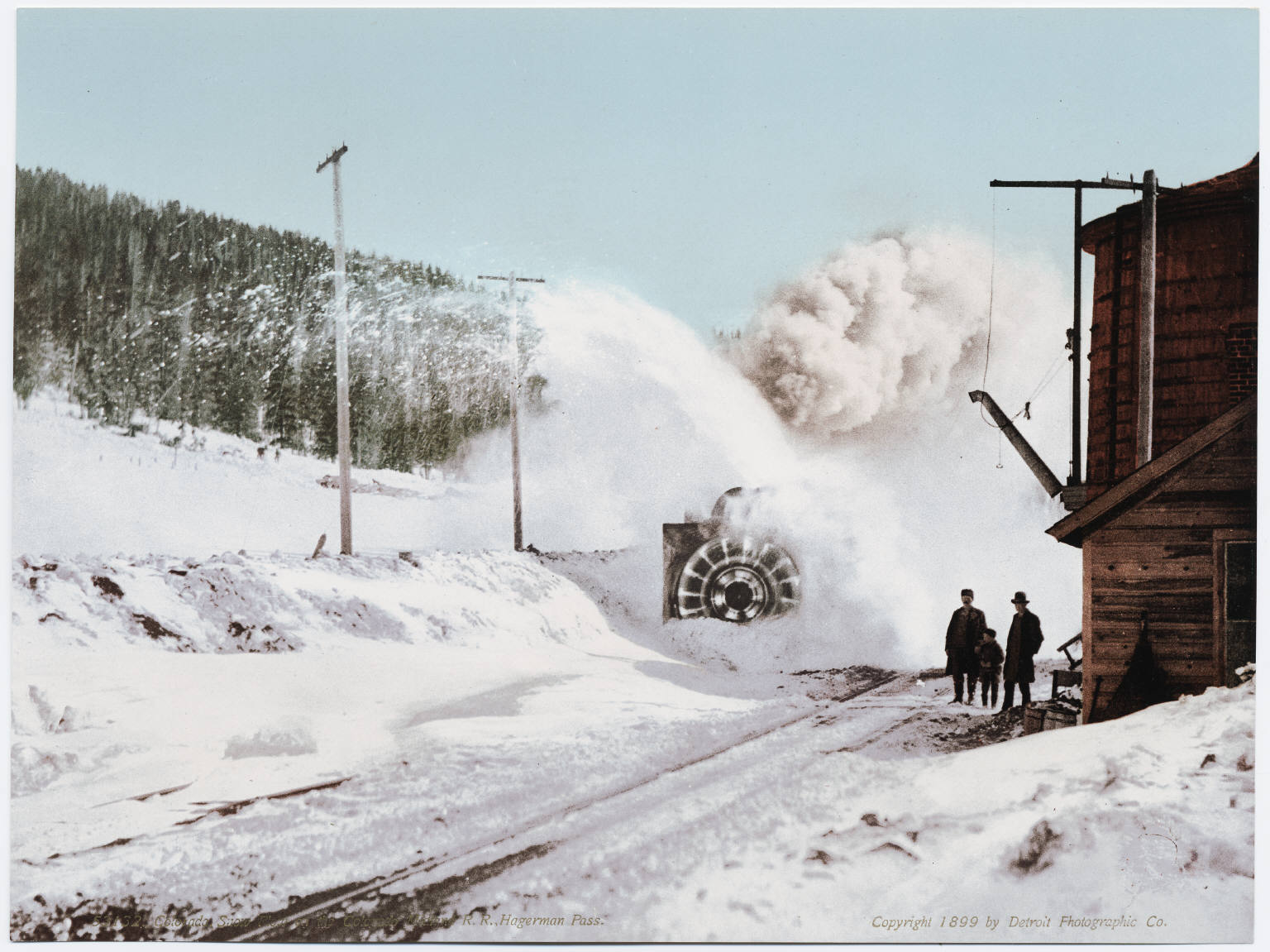 A photochrom postcard published by the Detroit Photographic Company.